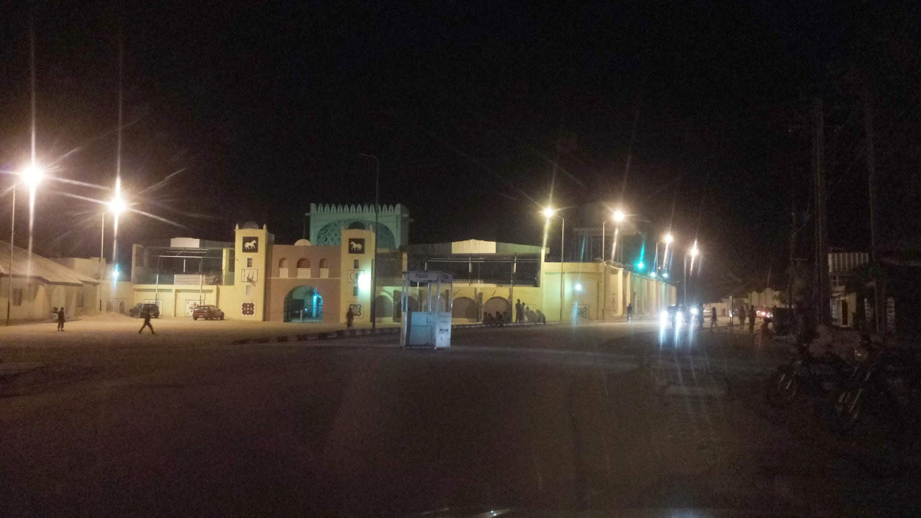 Emirs Palace, Hadejia, NIGERIA (night)